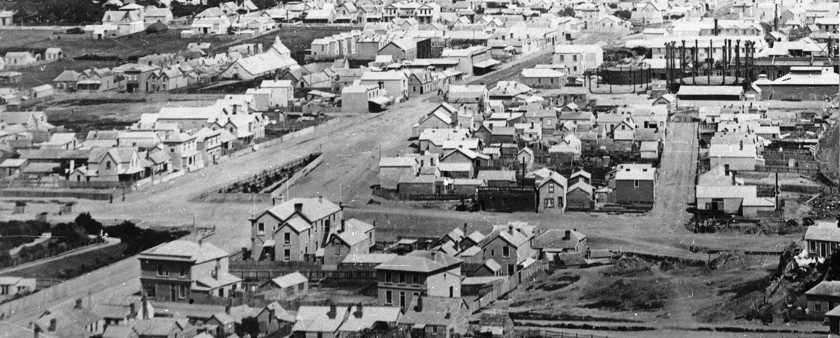 Courtenay Place from Cambridge Terrace to Taranaki Street seen from Mt Victoria, Wellington, New Zealand circa 1878